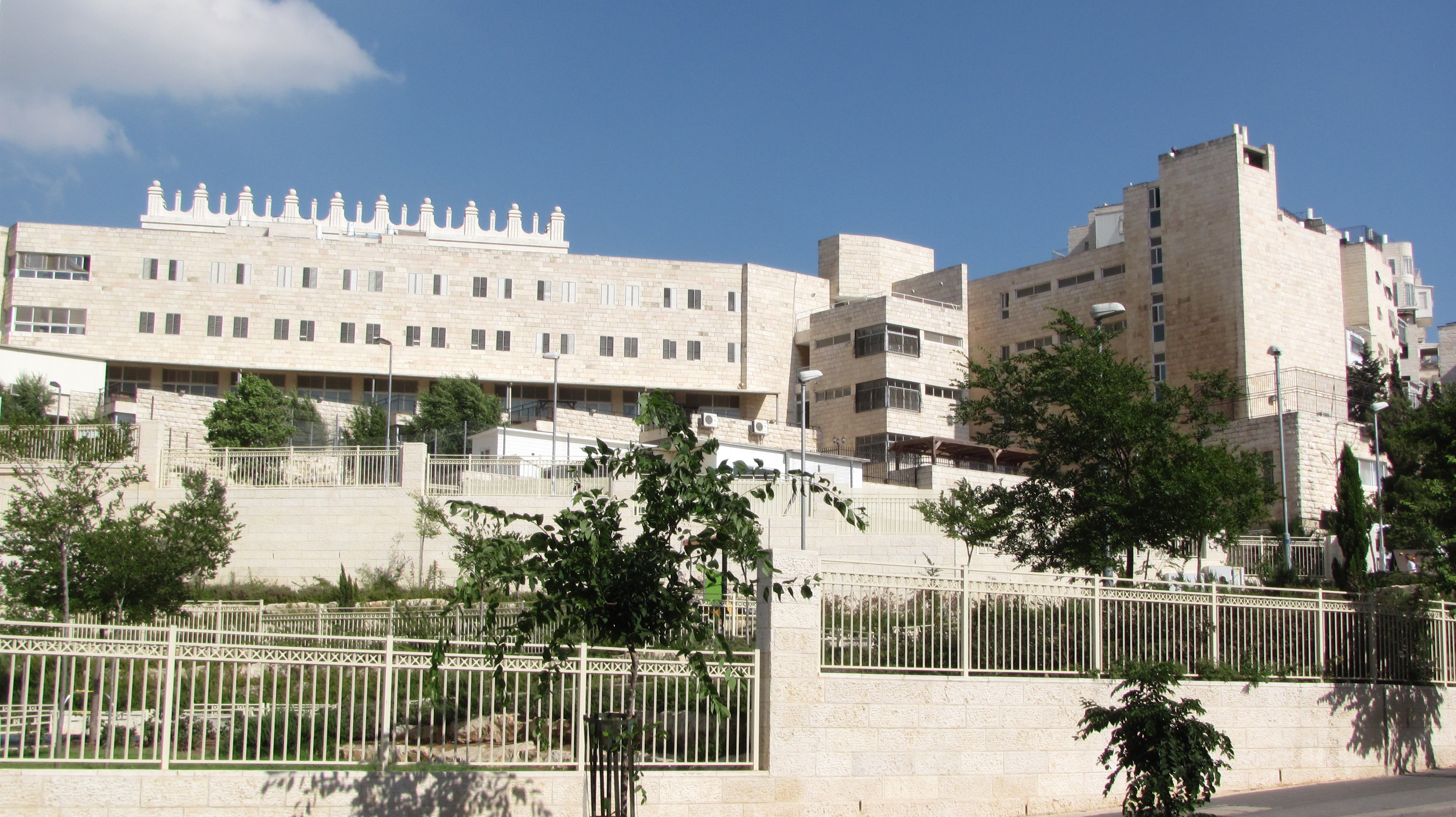 Beth Jacob Jerusalem seminary. (Crenalated roof of the Belz World Center in background.)